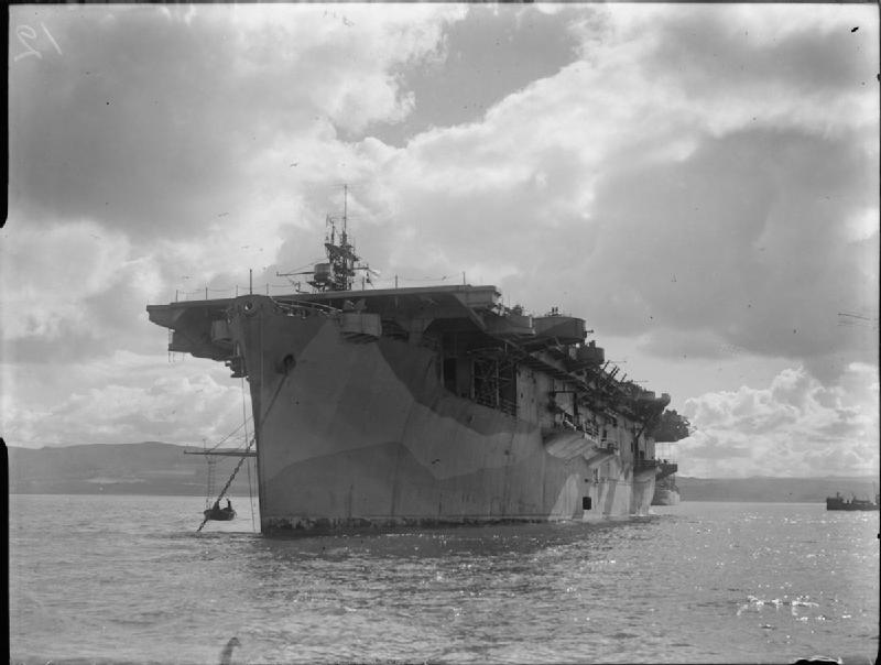 The Royal Navy during the Second World War HMS CHASER, a former American auxiliary carrier commanded by Captain H V P McClintock, at anchor at Greenock.